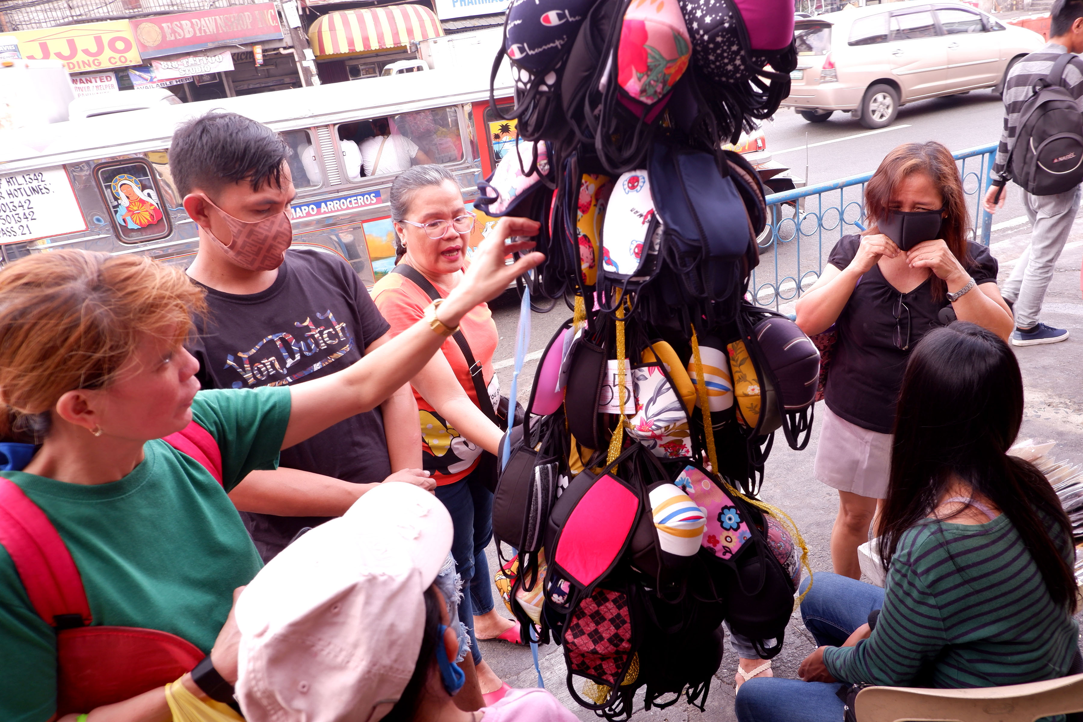 CLOTH FACE MASK. Seller of face masks made of cloth draws buyers near Munoz public market along Roosevelt Avenue in Quezon City on Wednesday (March 11, 2020). People resort to cloth face masks amid the shortage and higher price of surgical masks triggered by the new cases of the deadly coronavirus disease. Prices of fabric face masks range from P25 to P65 depending on the style and design.